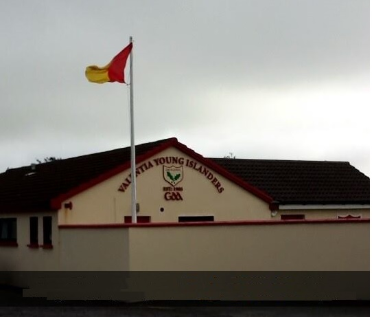 O'Connor Park, GAA Field in Chapletown